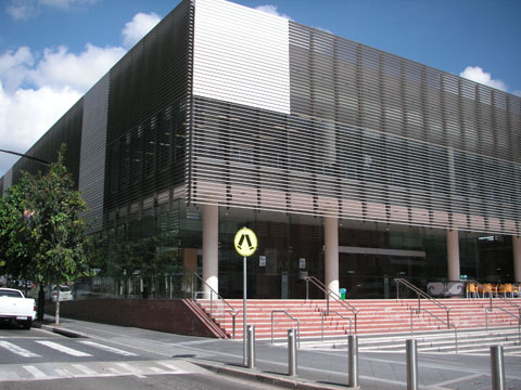 Max Webber Library in Blacktown, NSW